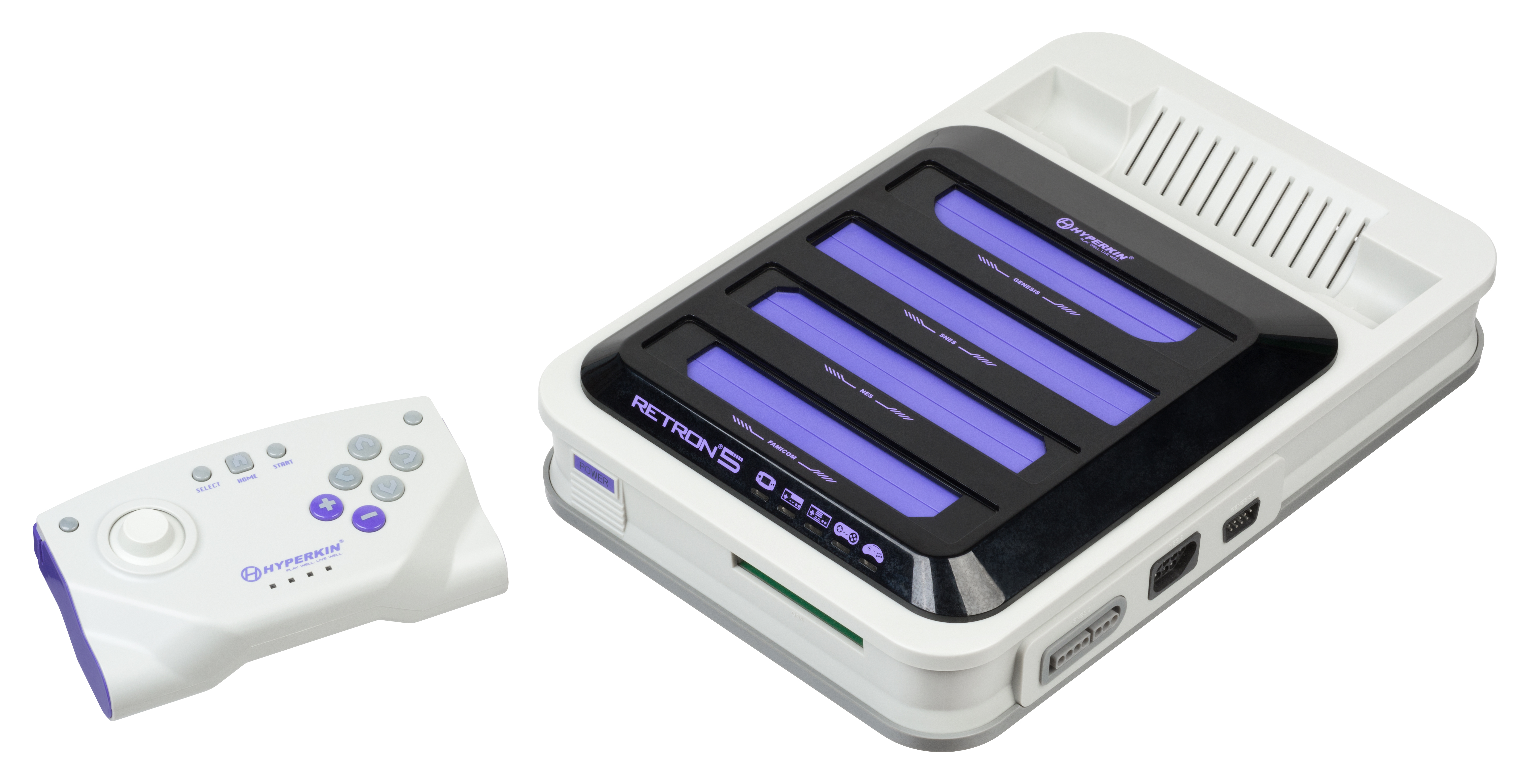 The Retron 5, a game console by Hyperkin that plays game cartridges from various gaming consoles through emulation.